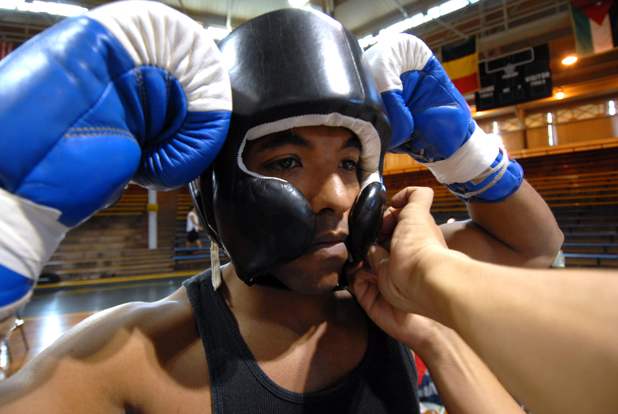 Pearl Harbor, Hawaii (Jan. 19, 2007) - U.S. Coast Guard Food Service Specialist 3rd Class Lamont Brown assigned to the Honolulu based Coast Guard Cutter Jarvis (WHEC 725), has his headgear adjusted by a boxing trainer from USA Boxing Hawaii Association, Inc., in preparation of a light-heavyweight boxing match at Bloch Arena. The boxing match was part of a tournament for the Surface Navy Association, Surface Line Week. U.S. Navy photo by Mass Communication Specialist 1st Class James E. Foehl (RELEASED)